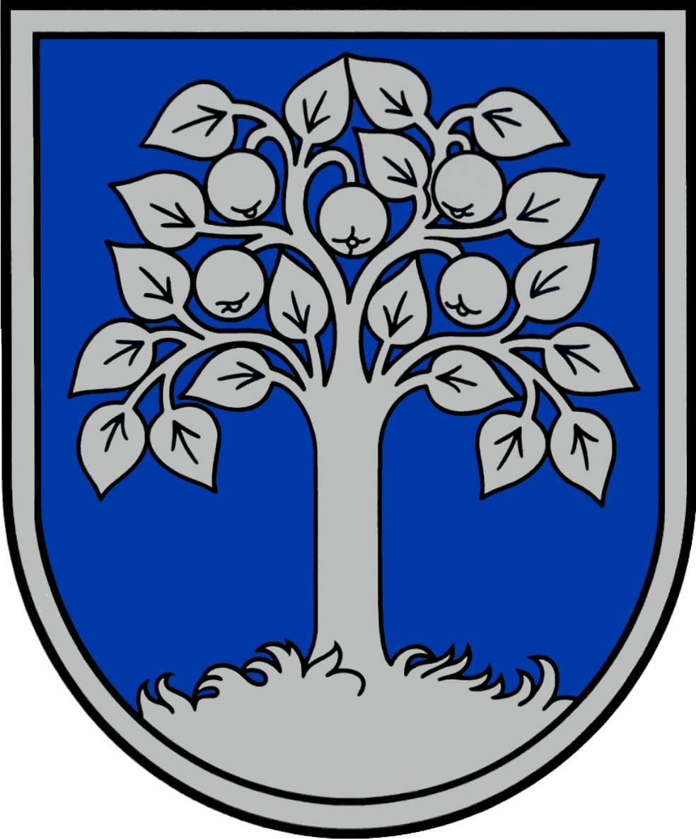 Coat of arms of Durbe municipality, Latvia